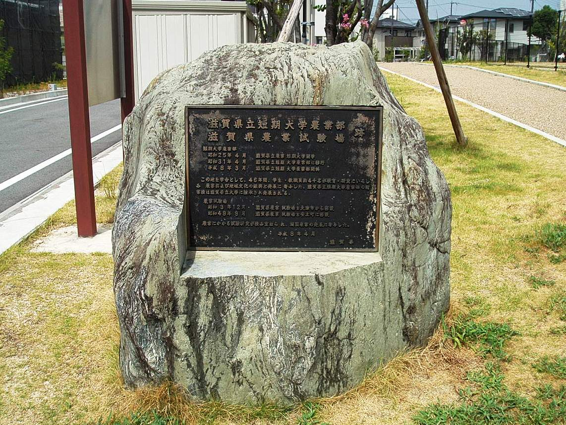 Memorial of the Agricultural Department of Shiga Prefectural College (one of the predecessors of the University of Shiga Prefecture) and Shiga Prefecture Agricultural Research Center, located in Kusatsu, Shiga, Japan.